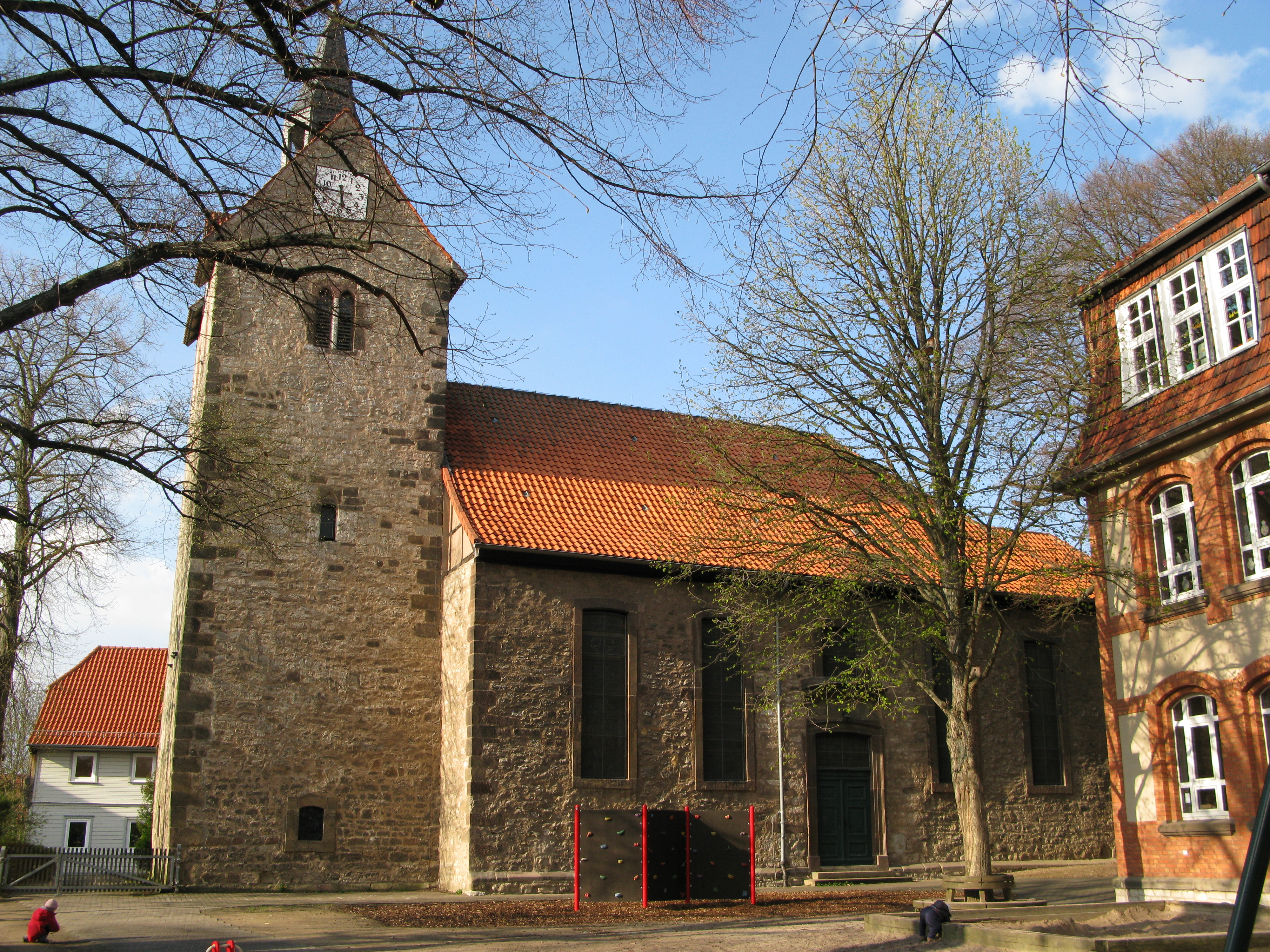 St. Petri - church, Göttingen/Weende, Germany